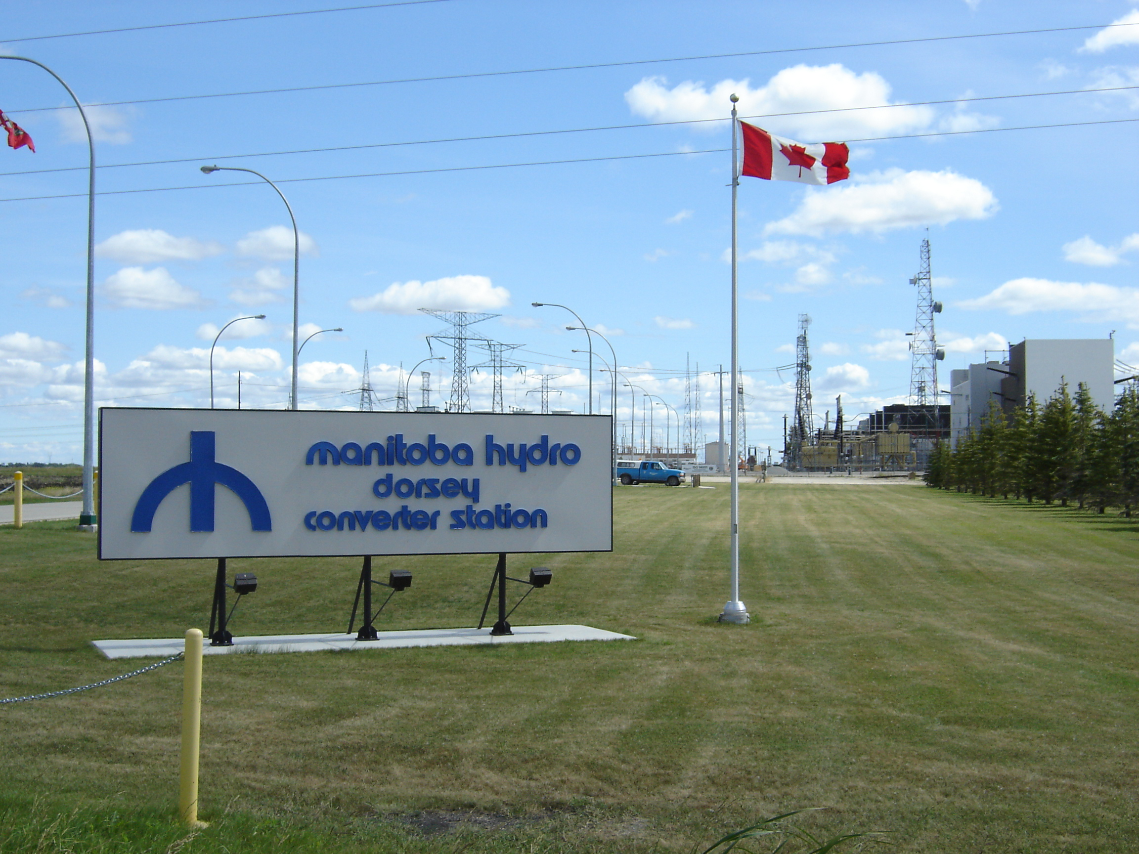 Entrance to the Manitoba Hydro Dorsey Converter Station near Rosser, Manitoba, Canada.